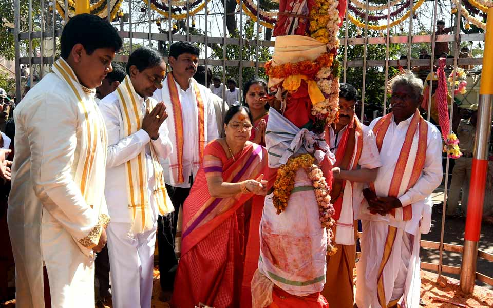 CM KCR visited Medaram Sammakka Saralamma Jathara on 02nd February 2018